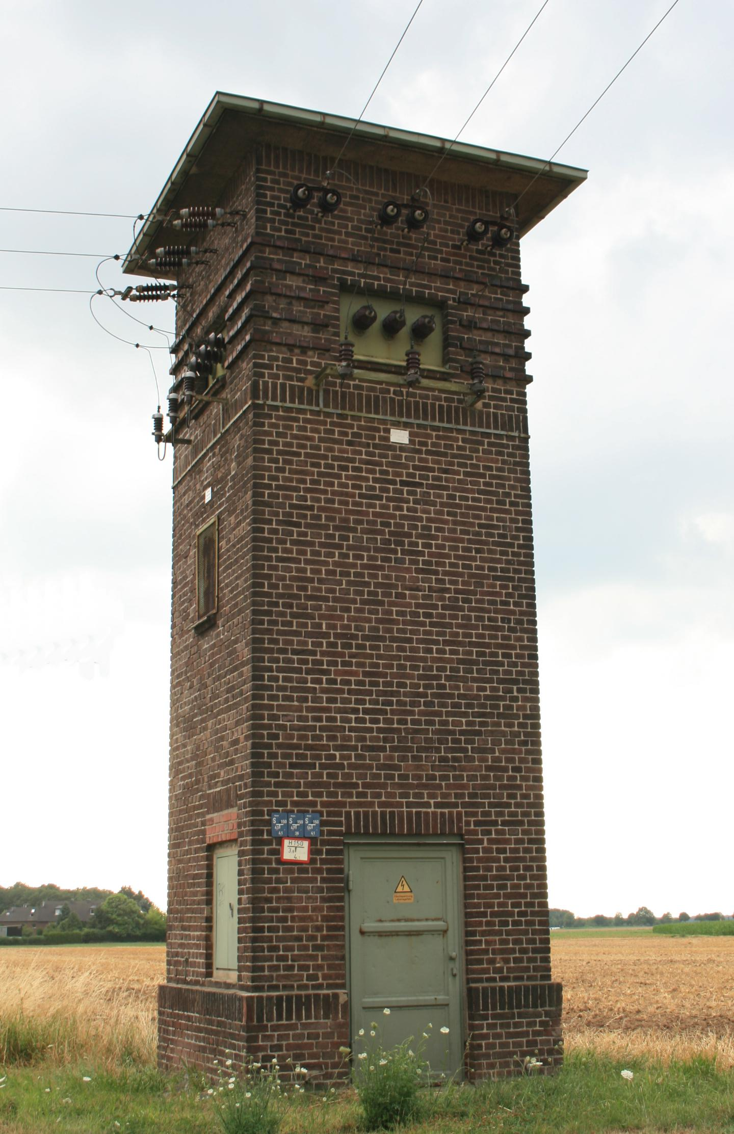 Cultural heritage monument No. H 102 in Mönchengladbach